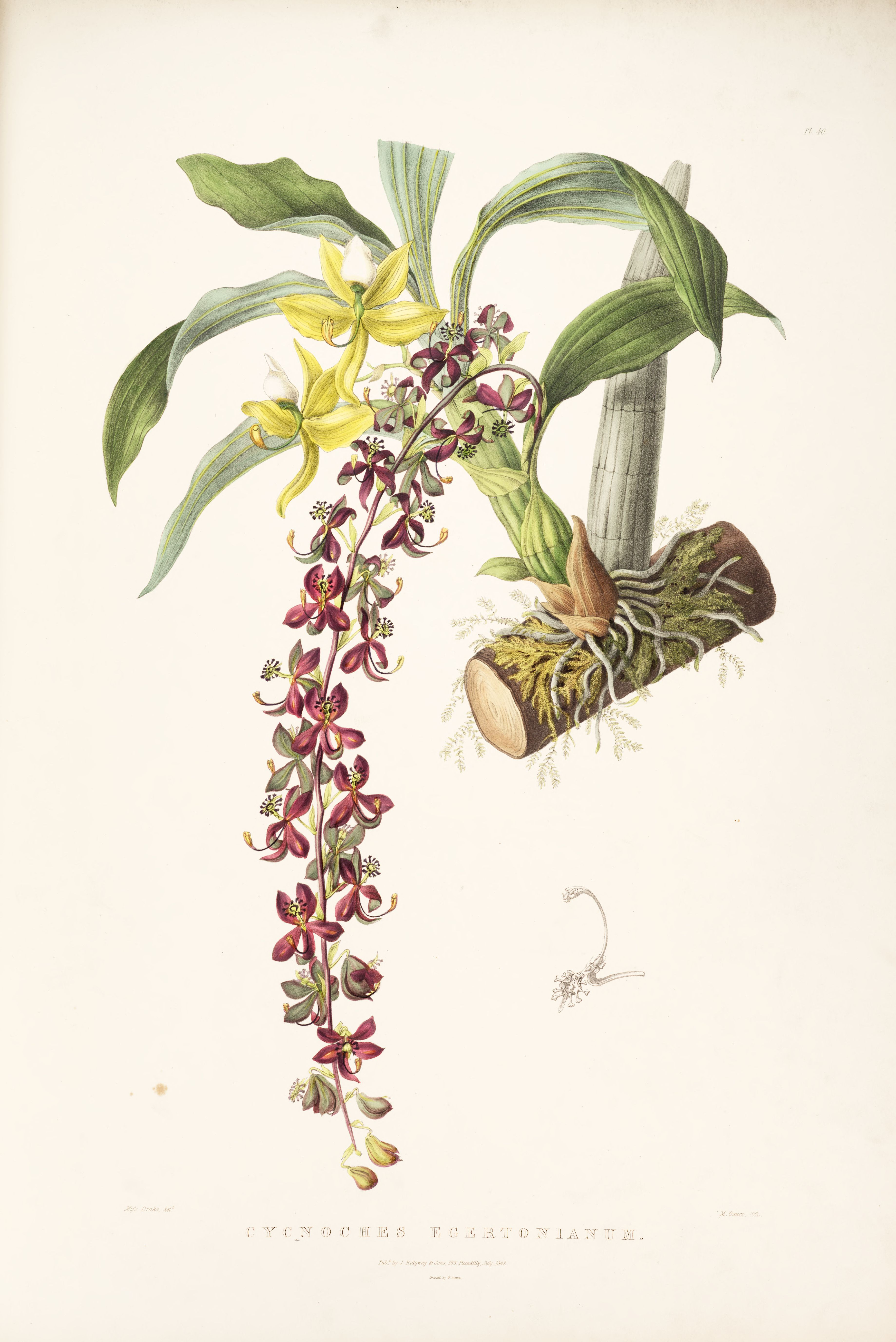 Illustration of Cycnoches egertonianum